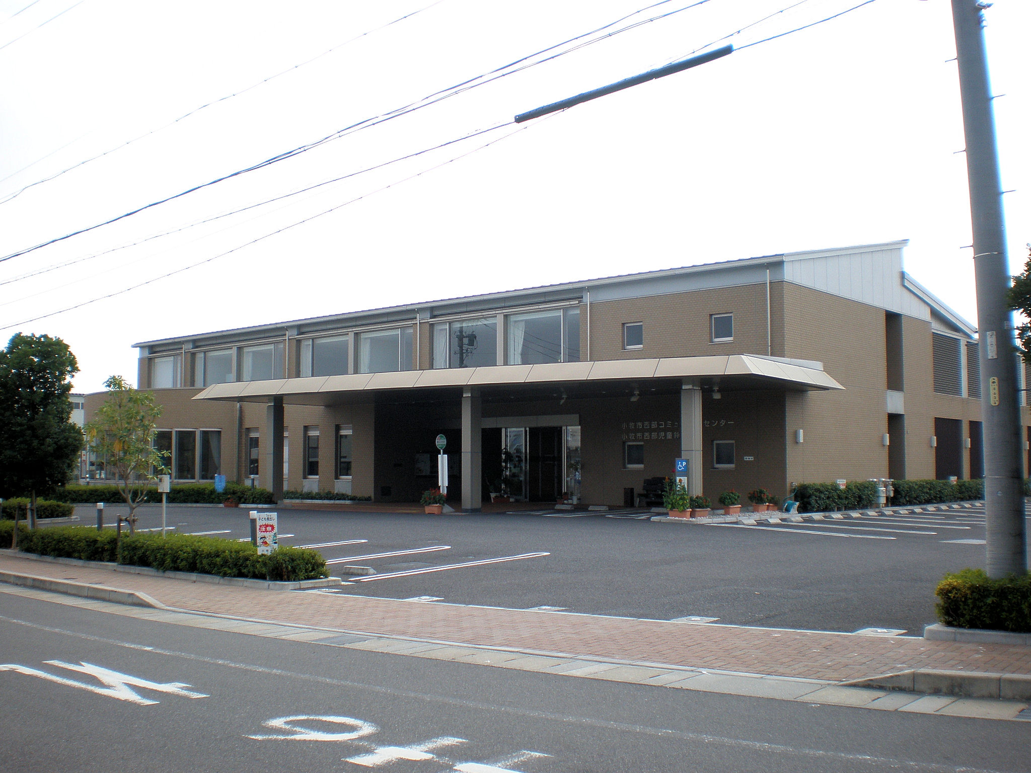 Komaki West Community Center